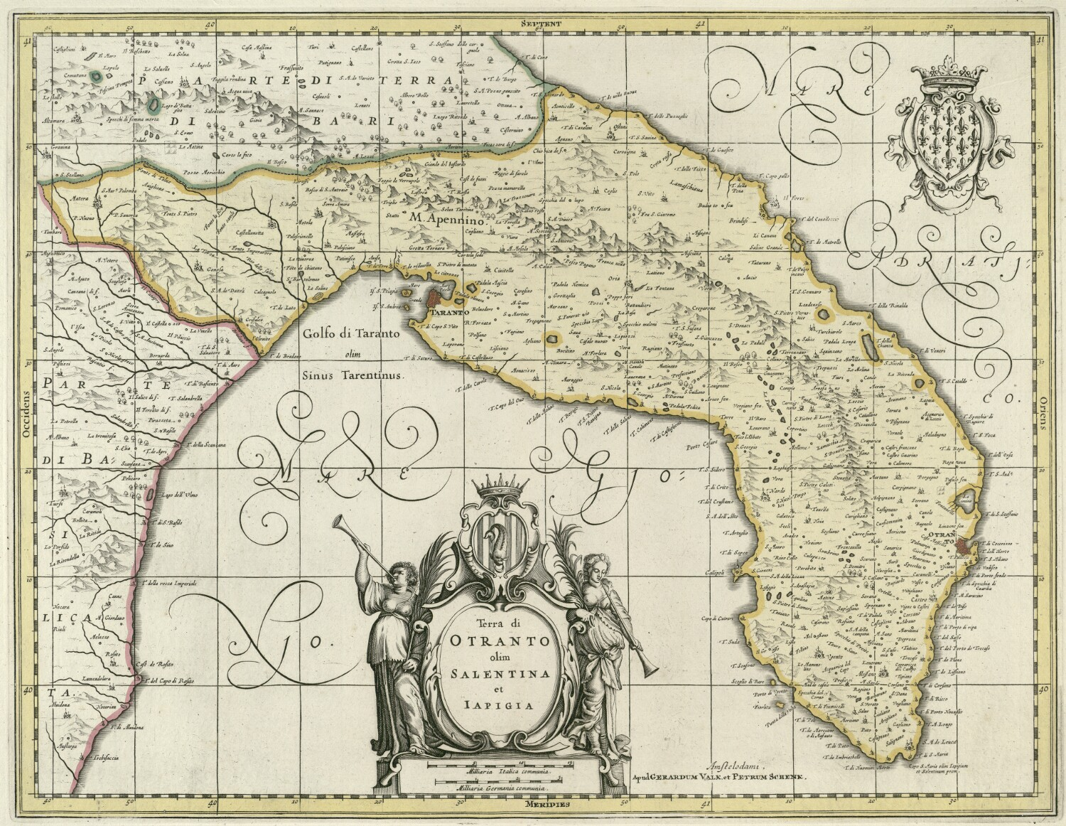 Terra d'Otranto; Amstelodami: Apud Gerardum Valk et Petrum Schenk, [between 1673 and 1719]